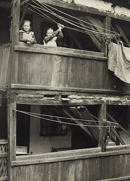 Slum in the Borgergade-Adelgade neighbourhood of Copenhagen, Denmark. Pre.1940